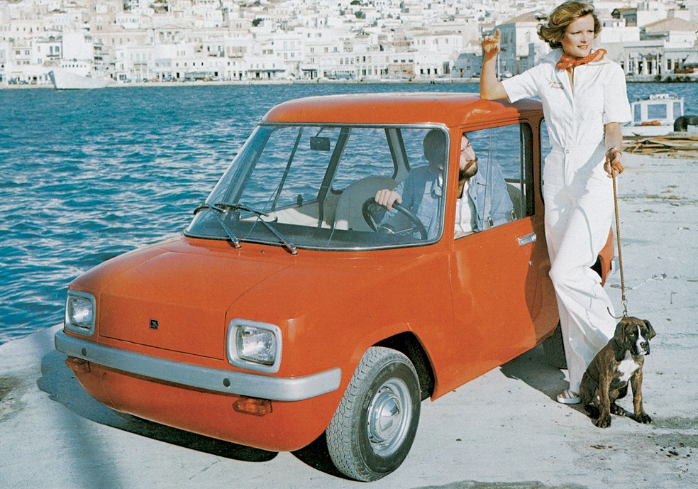 Image of an Enfield-Neorion 8000 Electric car, kindly provided by car designer Mr. Georgios Michael. It can be freely reproduced.